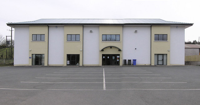 Community Hall, Altamuskin. Not sure what this hall is used for, but there is a branch of the Credit Union here.